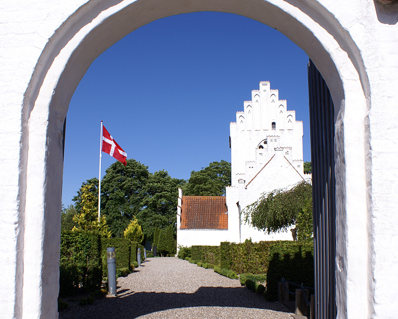 Tuse Church in the small town of Tuse, west of Holbæk, Denmark